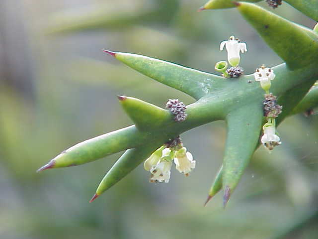 Species: Colletia atrox Family: Rhamnaceae Image No. 1